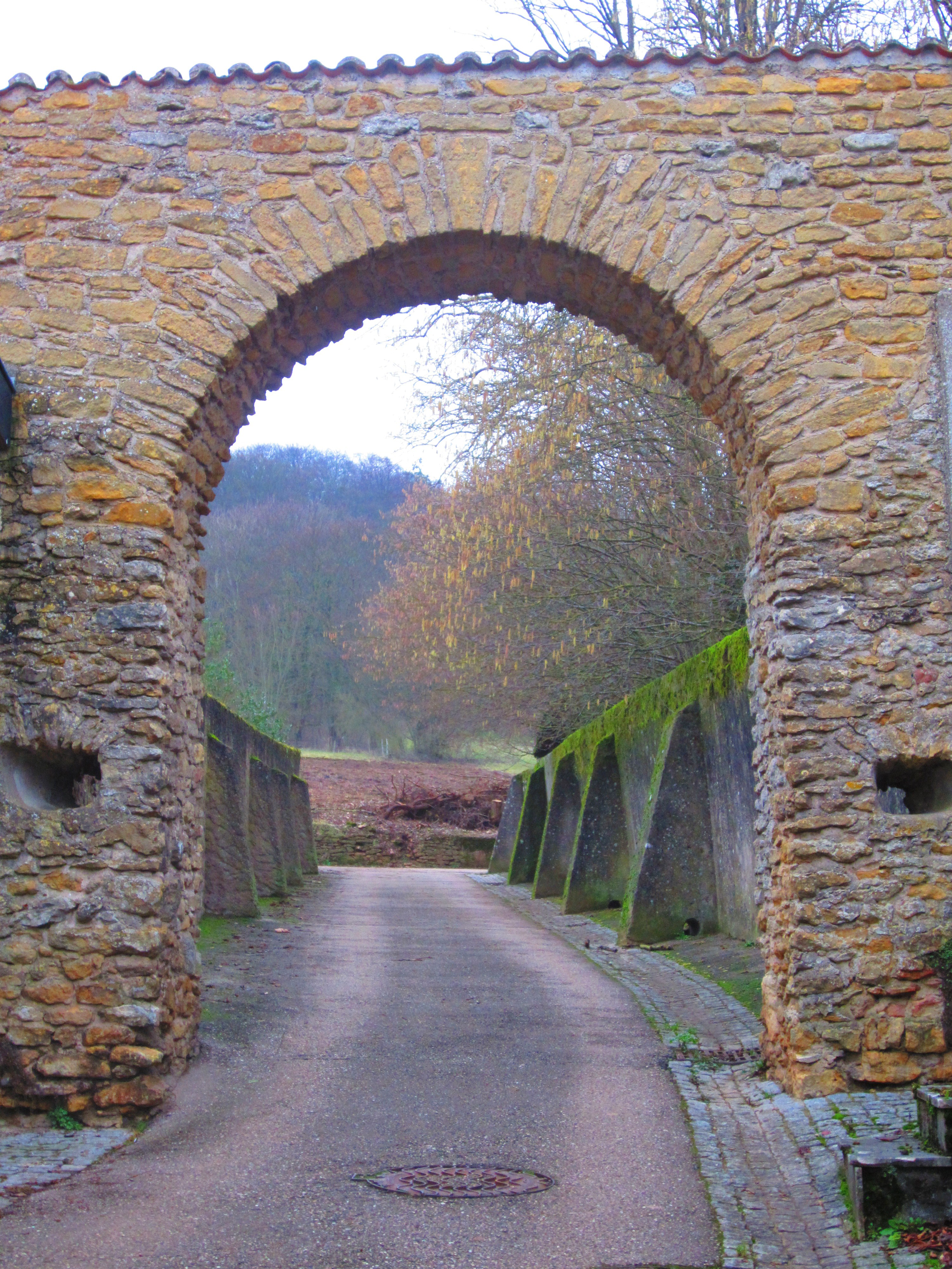 Rozerieulles door